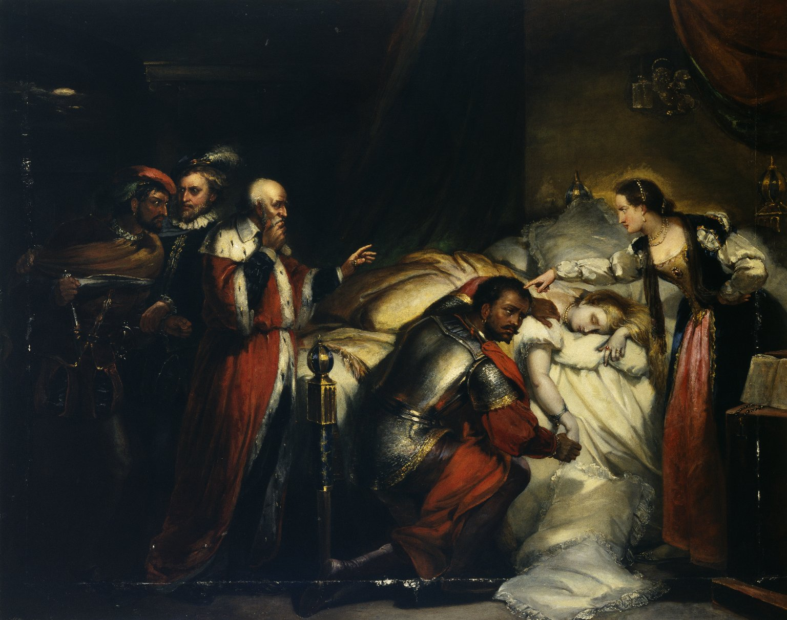 Painting of Othello weeping over Desdemona's body. Oil on canvas, ca. 1857.